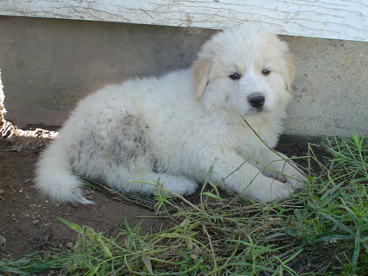 Great Pyrenees (Pyrenean Mountain Dog) puppy